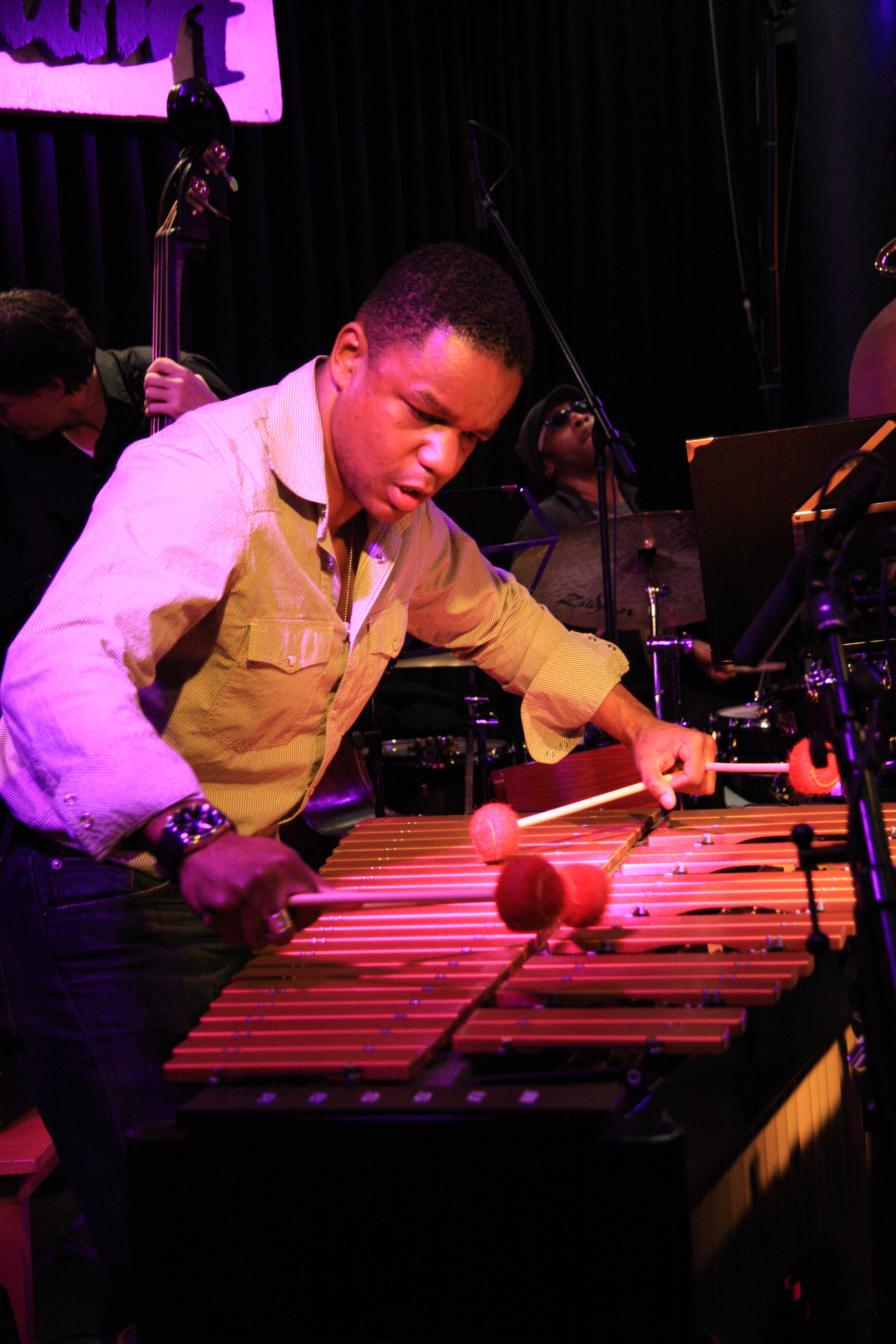 Stefon Harris performing at a workshop in Munich (Germany) with the band San Francisco Jazz Collective